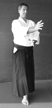 Sensei_Jacques_Muguruza_(Yoshinkan_garde)